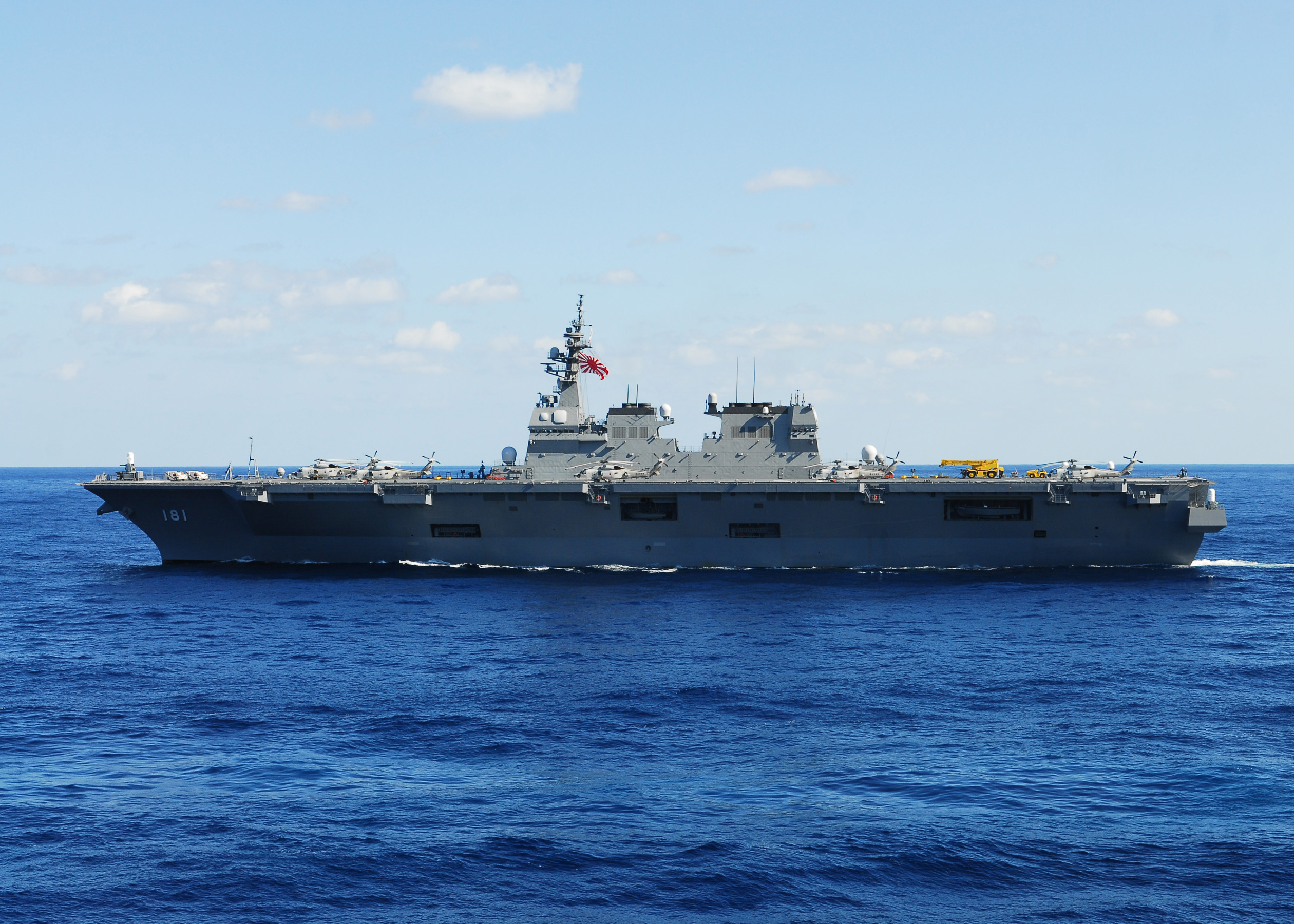 PHILIPPINE SEA (Dec. 9, 2010) The Japan Maritime Self-Defense Force destroyer Hyuga (DDH 181) is underway during Keen Sword 2011, a bilateral exercise designed to strengthen maritime capabilities between the U.S. and Japan. (U.S. Navy photo by Mass Communication Specialist 3rd Class Andrew Ryan Smith/Released)